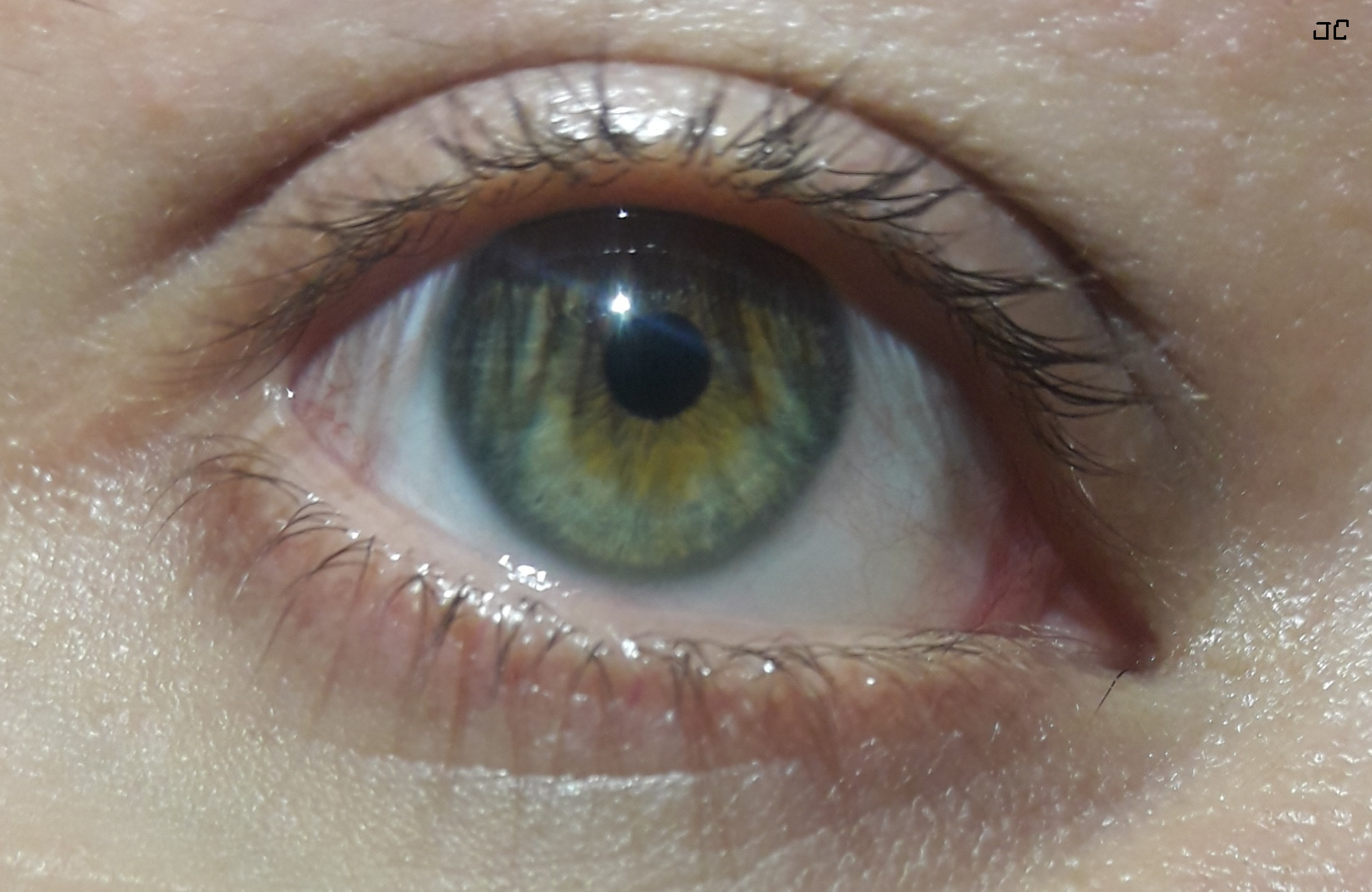 Eye with heterochromia